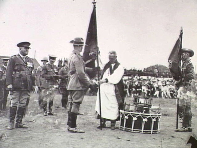 The 55th Battalion (New South Wales Rifle Regiment) is presented with its Colours in a ceremony at Liverpool, NSW, on 13 February 1927.